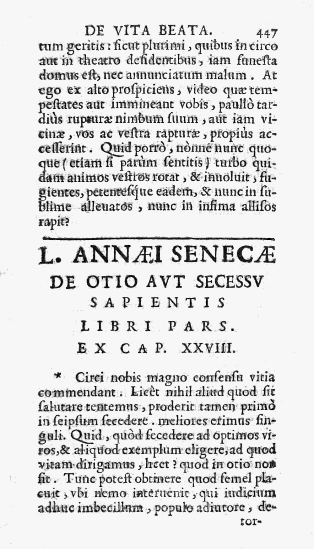 Page 447 of L. Annæi Senecæ philosophi Opera: tribus tomis distincta. Tomus 1. (1643). Published by Francesco Baba. (WorldCat)